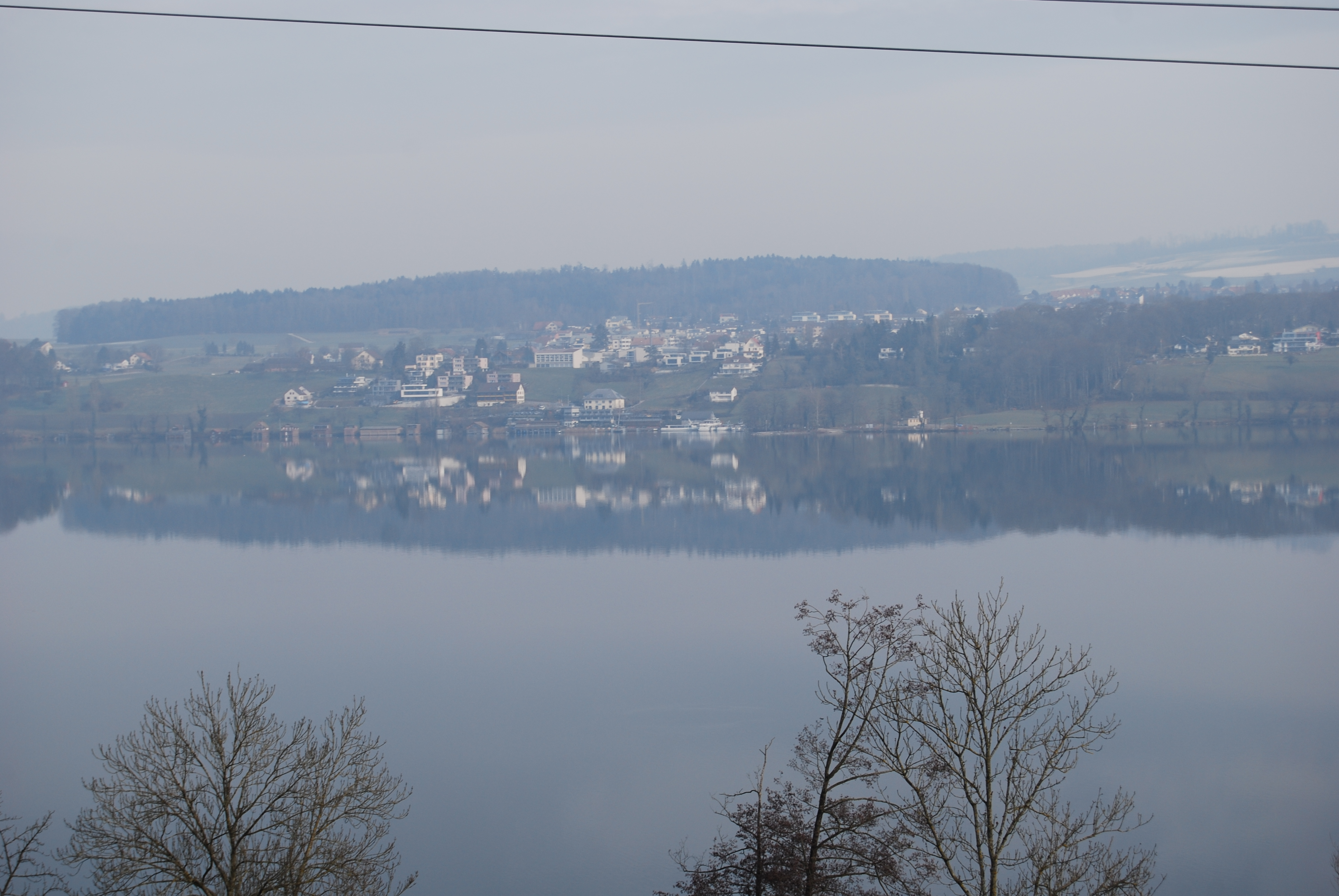 View from Birrwil to Lake Hallwil and Meisterschwanden, canton of Aargau, Switzerland